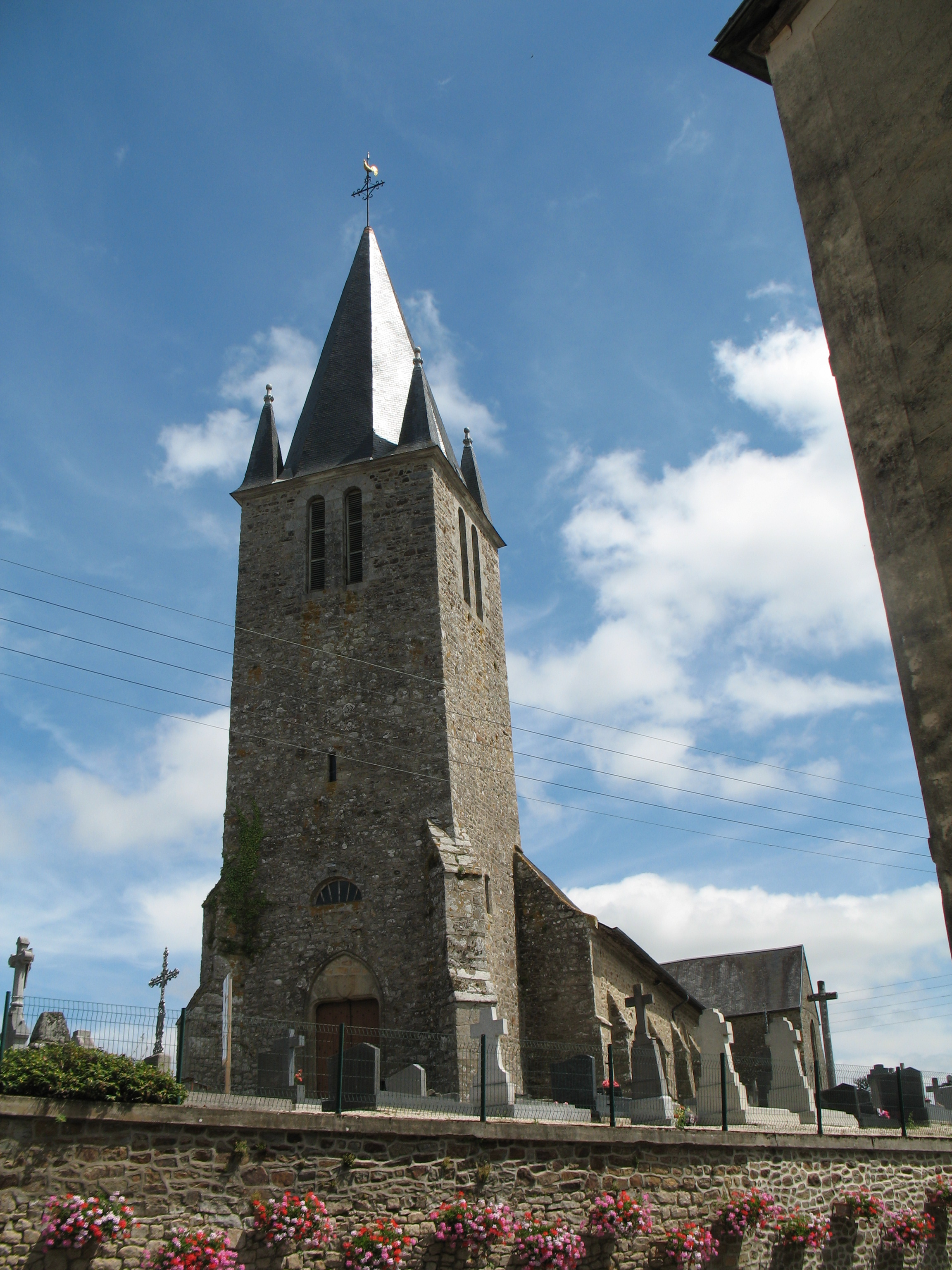 Church of Dompierre-du-Chemin.